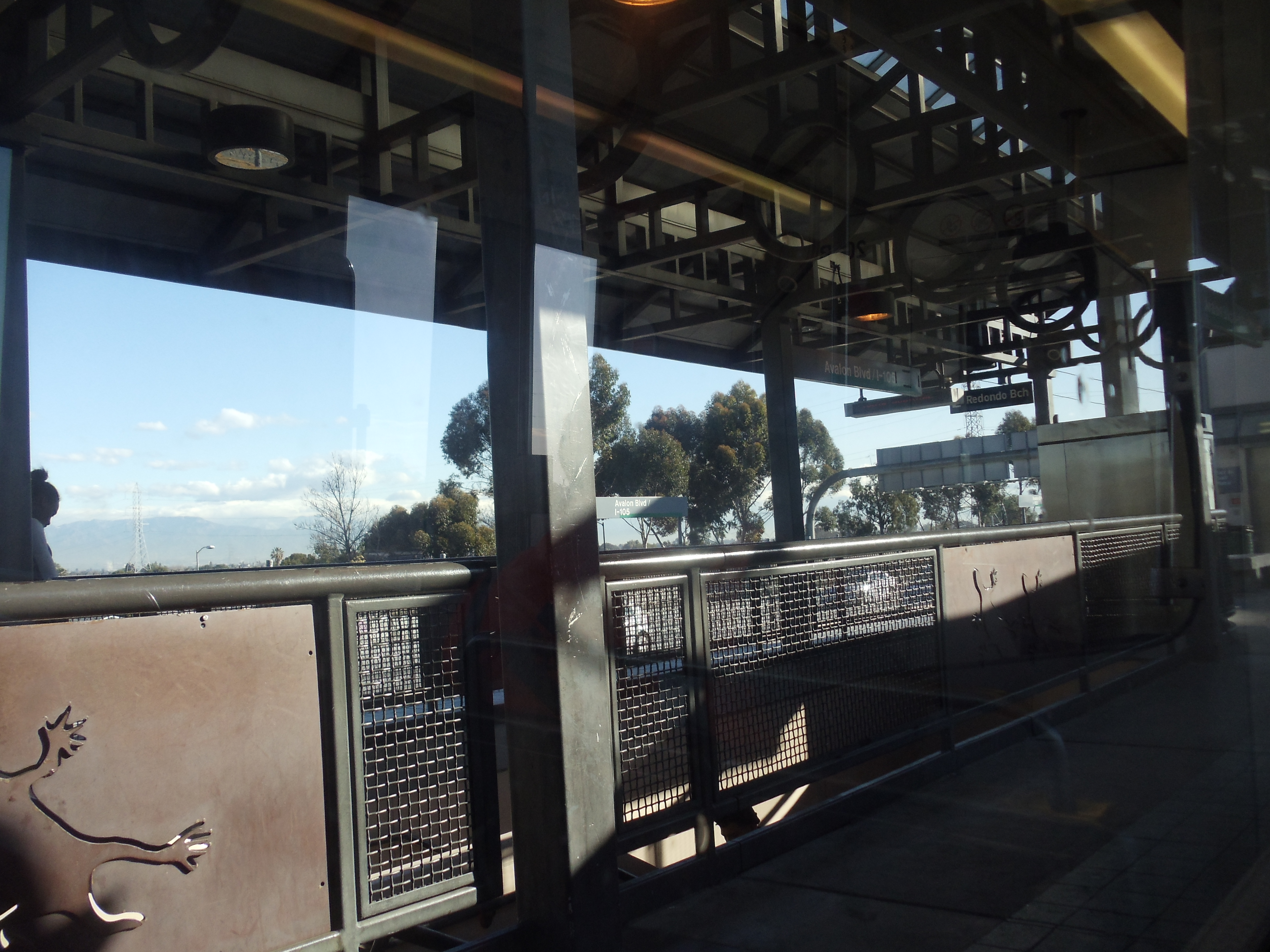 Avalon station boarding platforms.